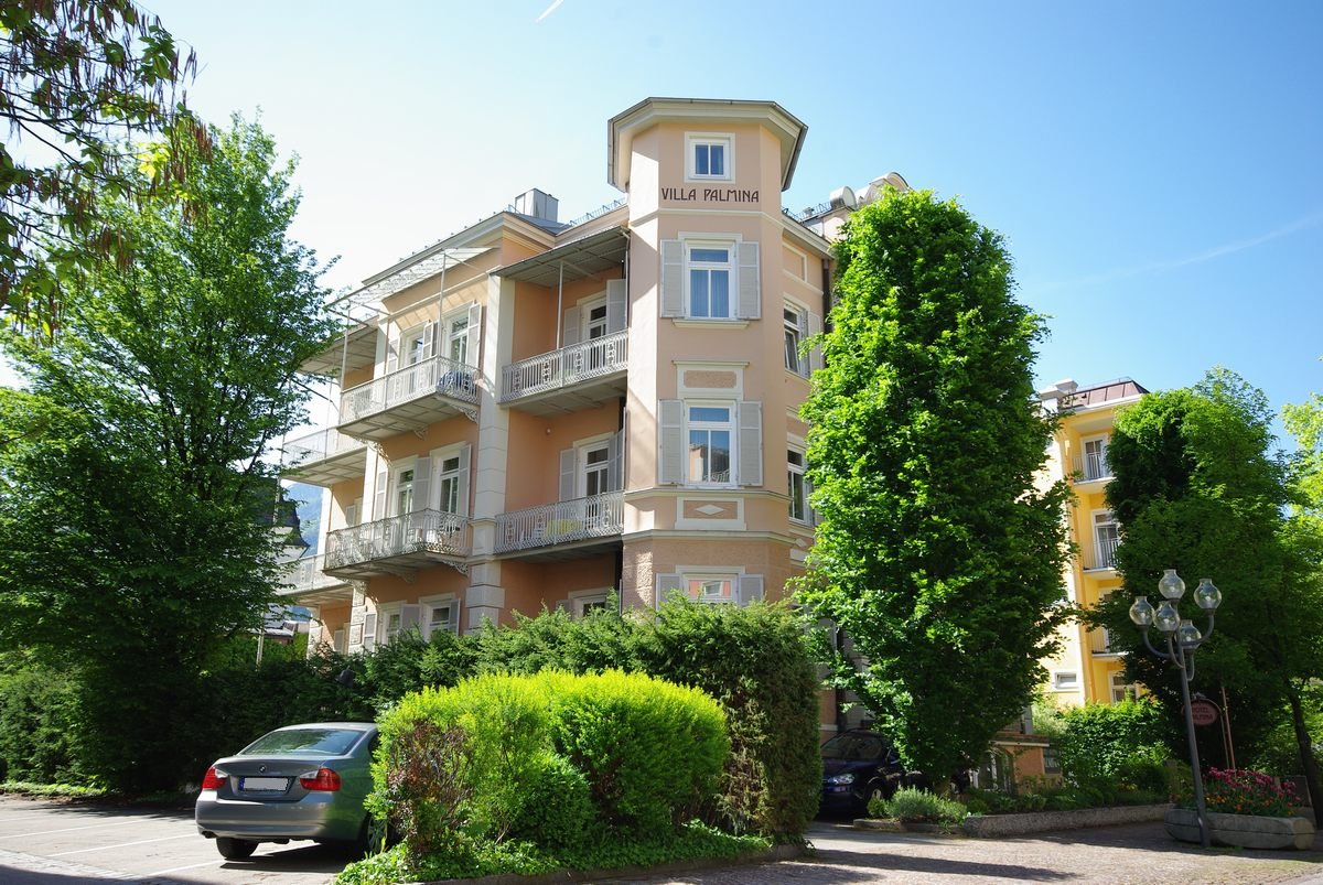 Mackstraße 4, Bad Reichenhall, Villa Palmina